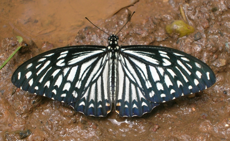 Papilio clytia form dissimilis, upper-side The Common Mime, Papilio clytia, is a Swallowtail butterfly found in South and South-east Asia. The butterfly belongs to the Chilasa group or the Black-bodied Swallowtails. It serves an excellent example of a Batesian mimic among the Indian butterflies. Taken at Nagerhole, India